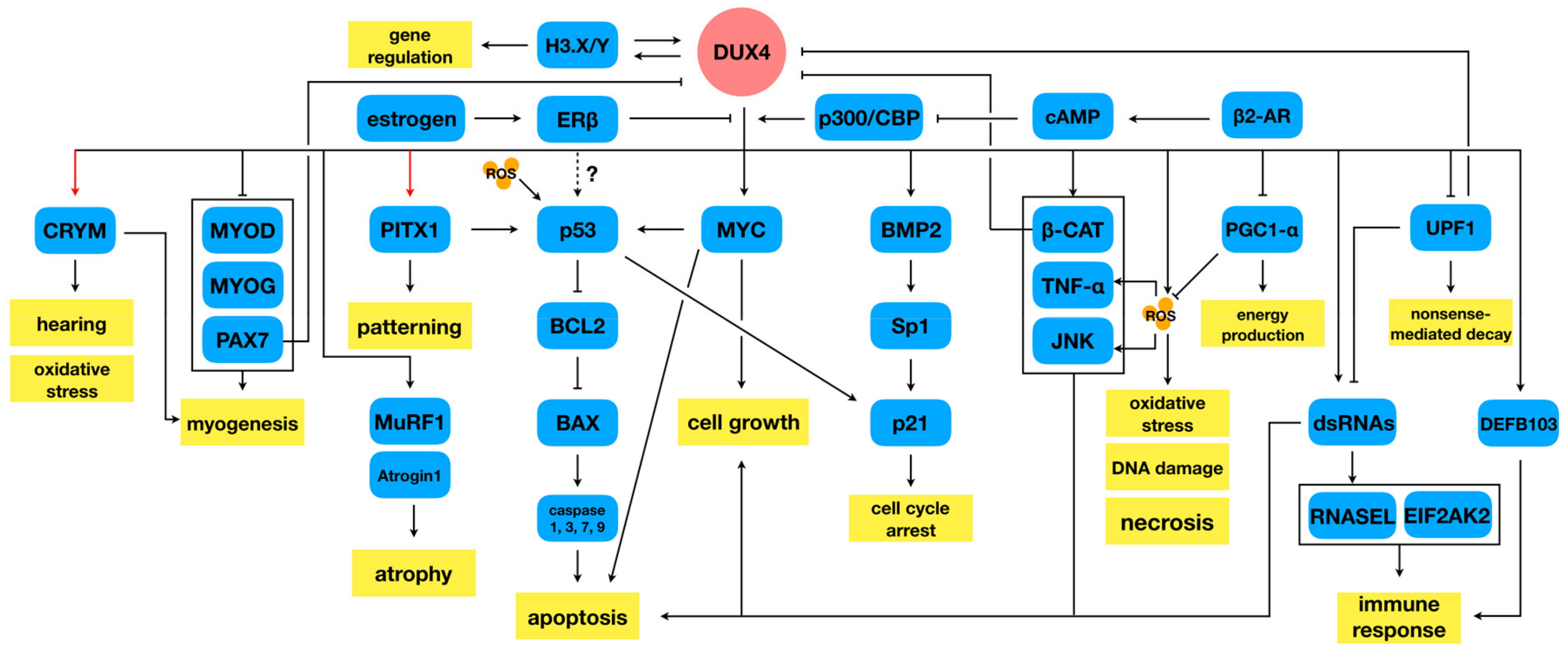 DUX4 signaling in FSHD-affected skeletal muscle. A simplified overview of the various signalling activities of DUX4 discussed in this review is depicted. Red arrows indicate a confirmed direct downstream DUX4 transcriptional target. Abbreviation: ROS, reactive oxygen species; FSHD facioscapulohumeral muscular dystrophy; DUX4: double homeobox protein 4.